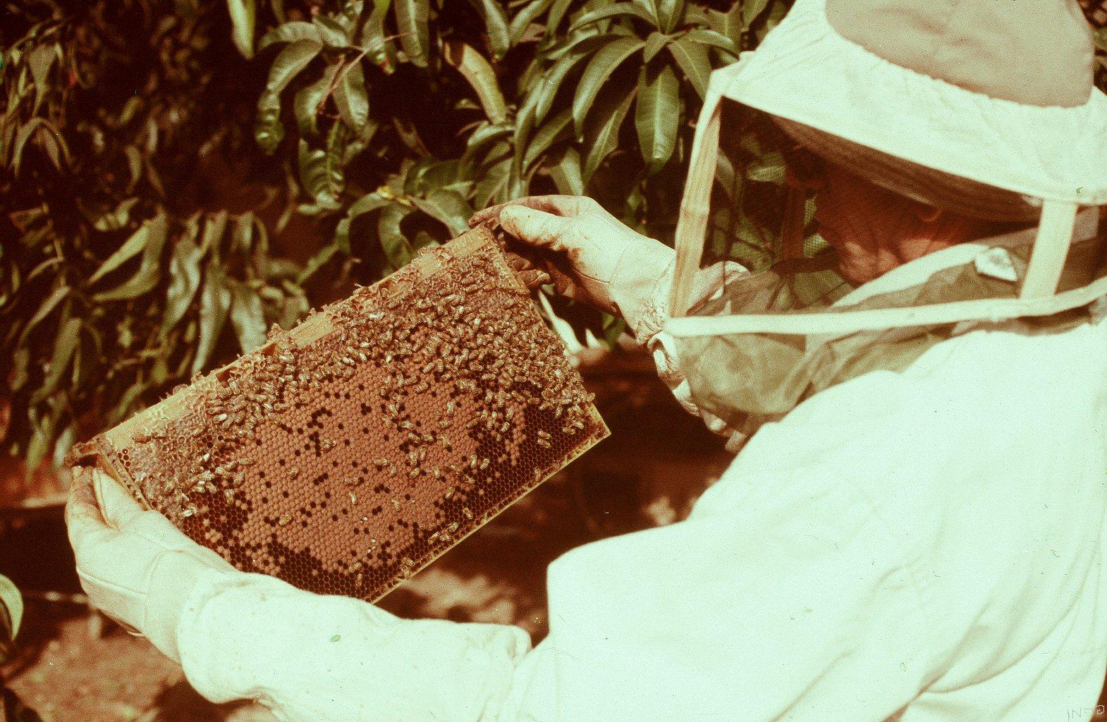 A beekeeper with a brood comb.